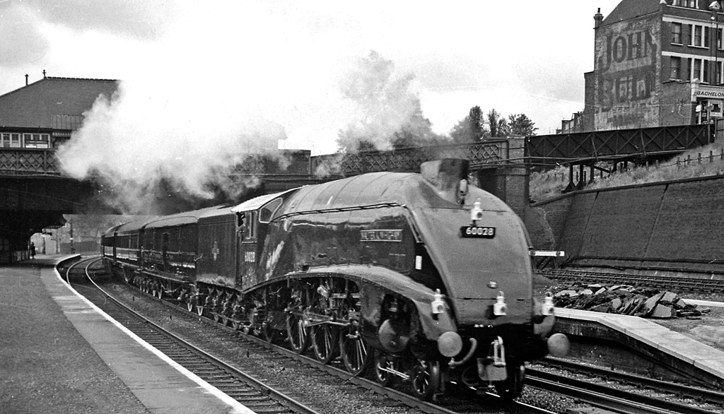 The Royal Train passing Harringay West on its way to York. View southward from the Up Fast platform; ex-Great Northern ECML. Gresley A4 Pacific No. 60028 'Walter K. Whigham', resplendent and with four-lamp headcode heads the Royal Train conveying H.M. the Queen and the Royal Party for the wedding of the Duke of Kent at York Minster. (They didn't trust a Diesel on the Royal Train in those days).